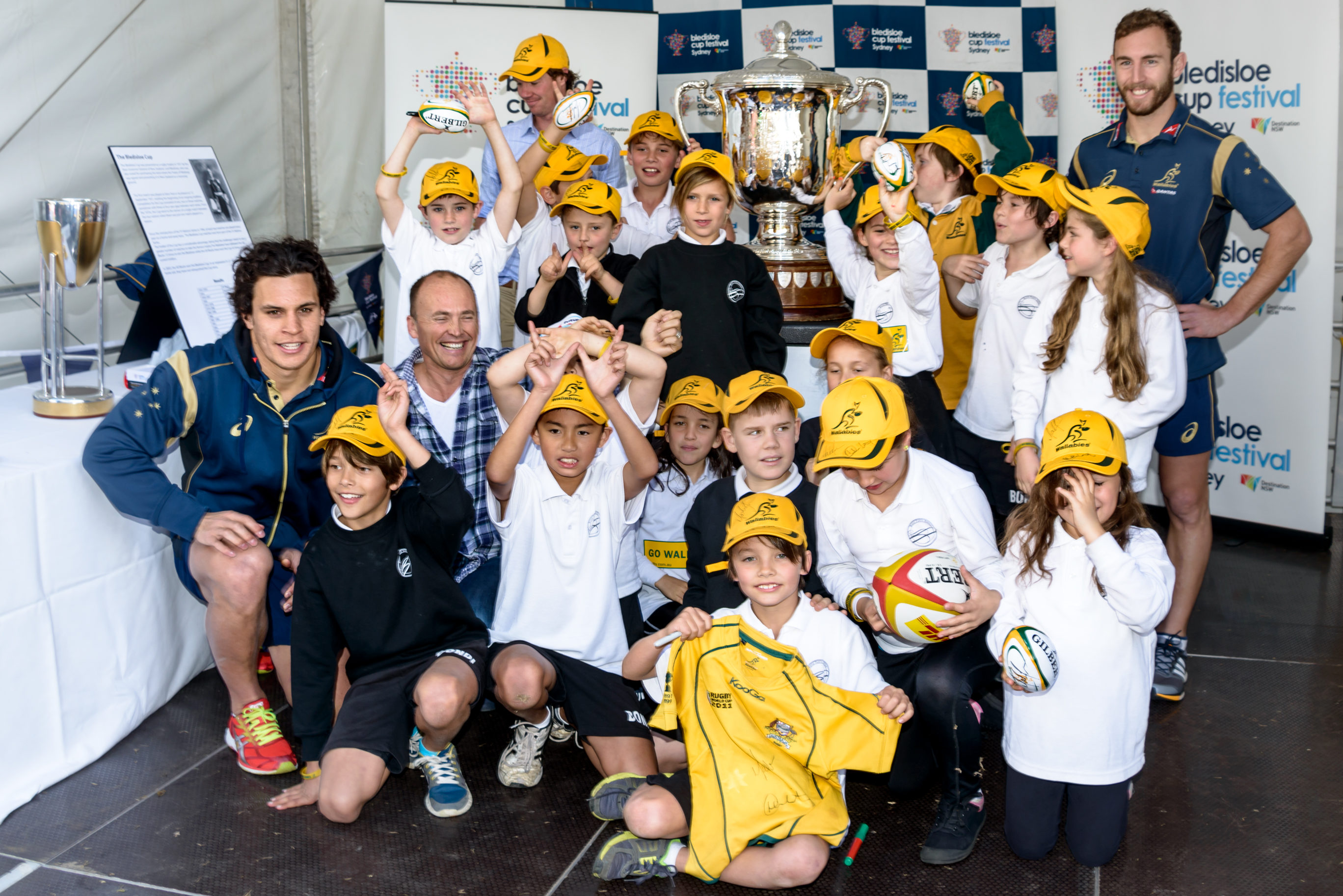 Bledisloe Cup with fans on display in Sydney 2014